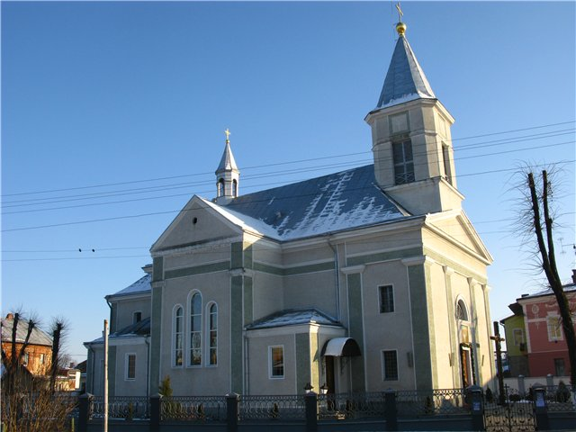 Assumption Cathedral in Stryi, Lviv Oblast, Ukraine